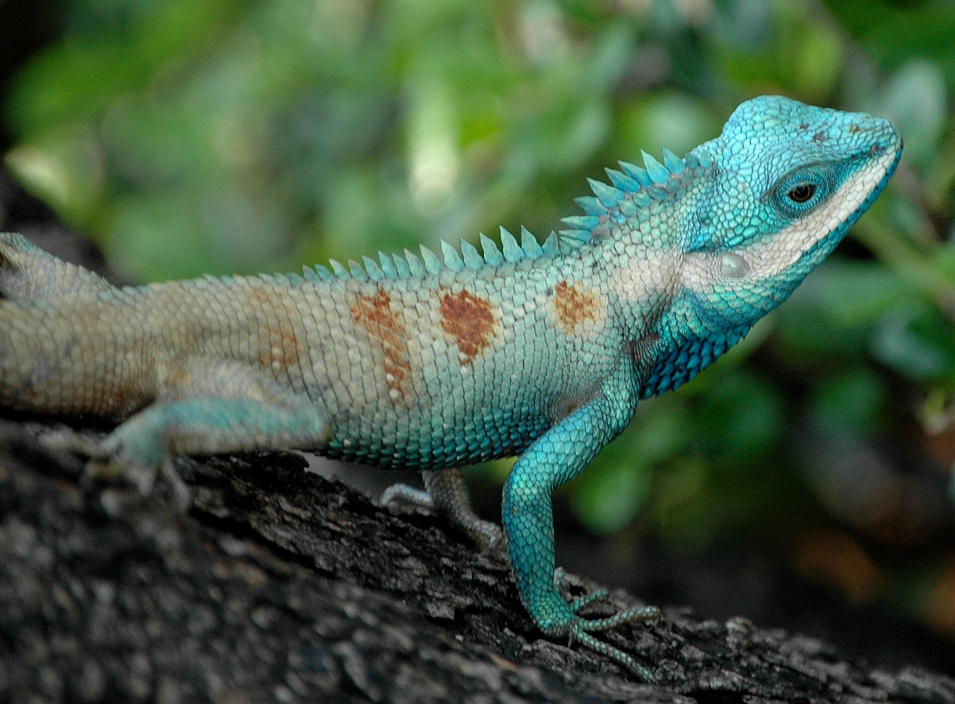 Bangkok lizard in front of Wat Po Blue crested Lizard (Calotes mystaceus)